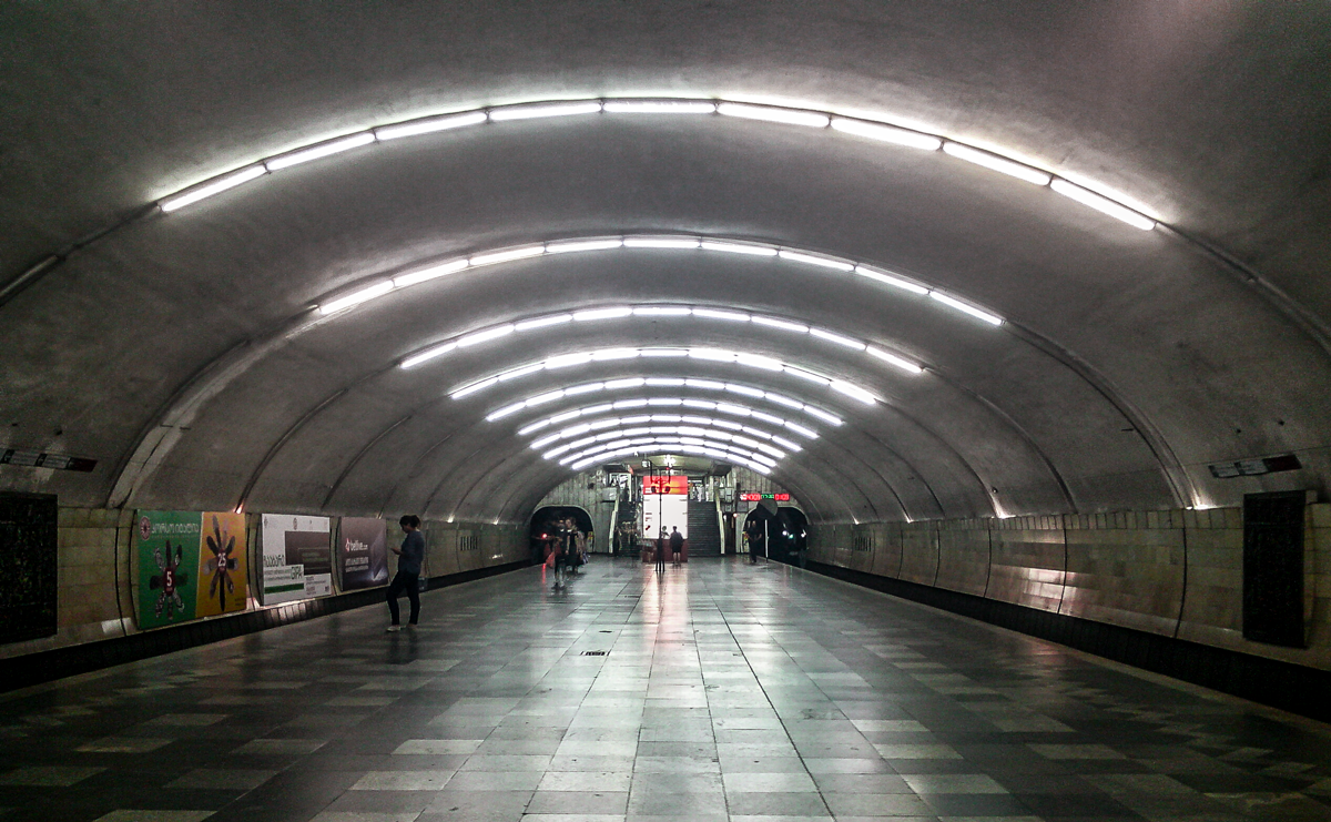 Metro Station Delisi, Tbilisi Metro, Saburtalo (Second) Line